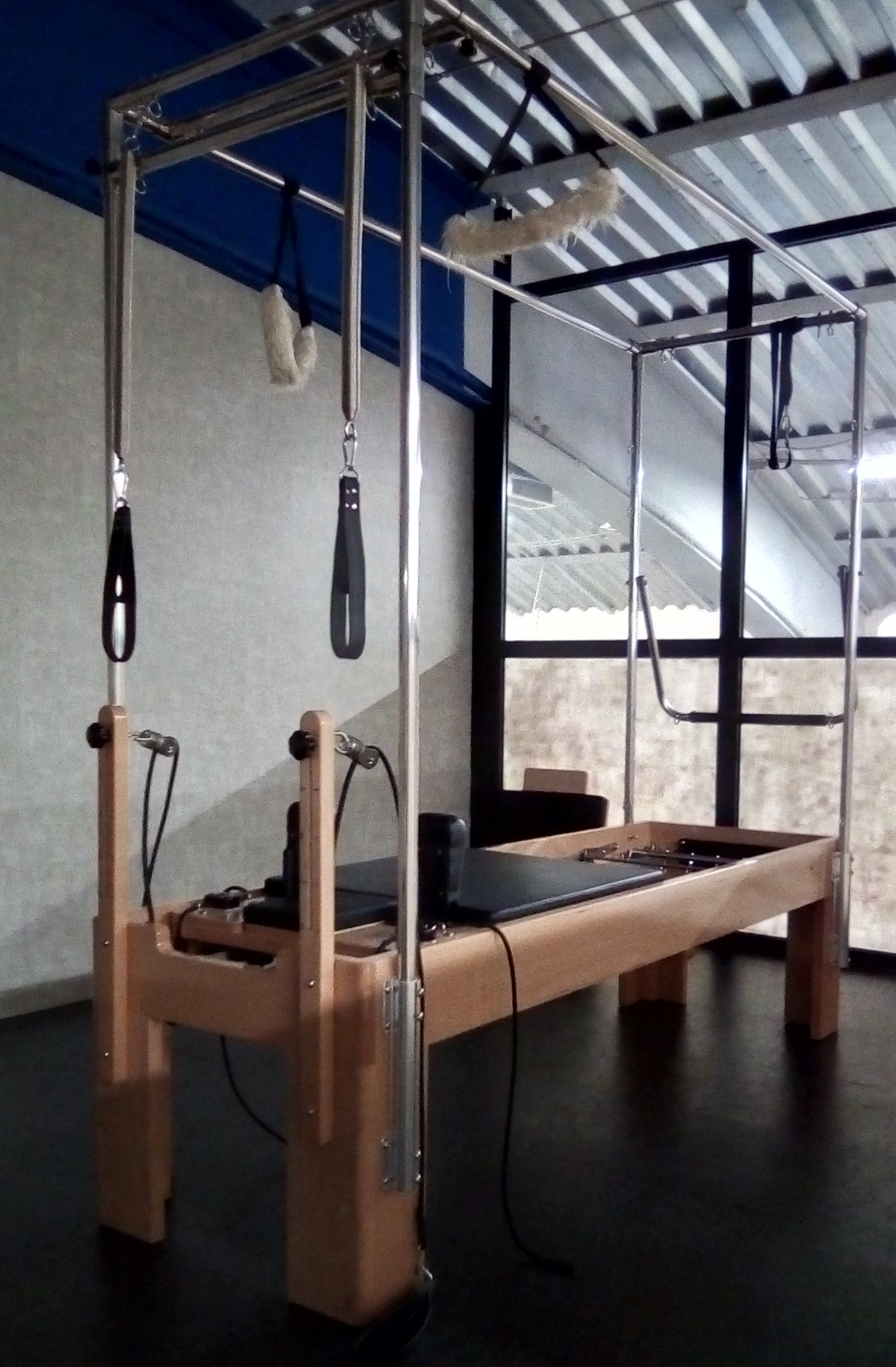 One of the apparatus developed by Joseph Pilates for own fitness system "Contrology"